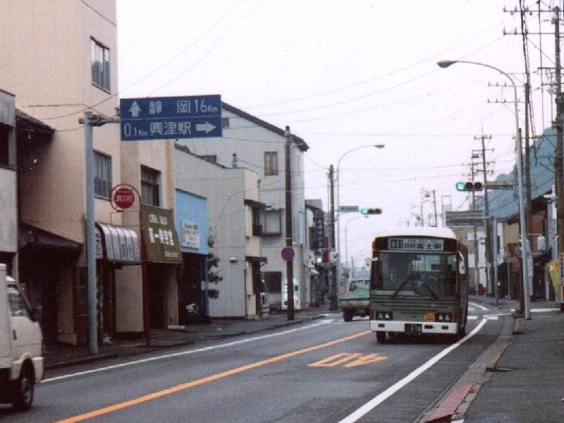 Fujikyu Bus at Okitsu Bus Stop